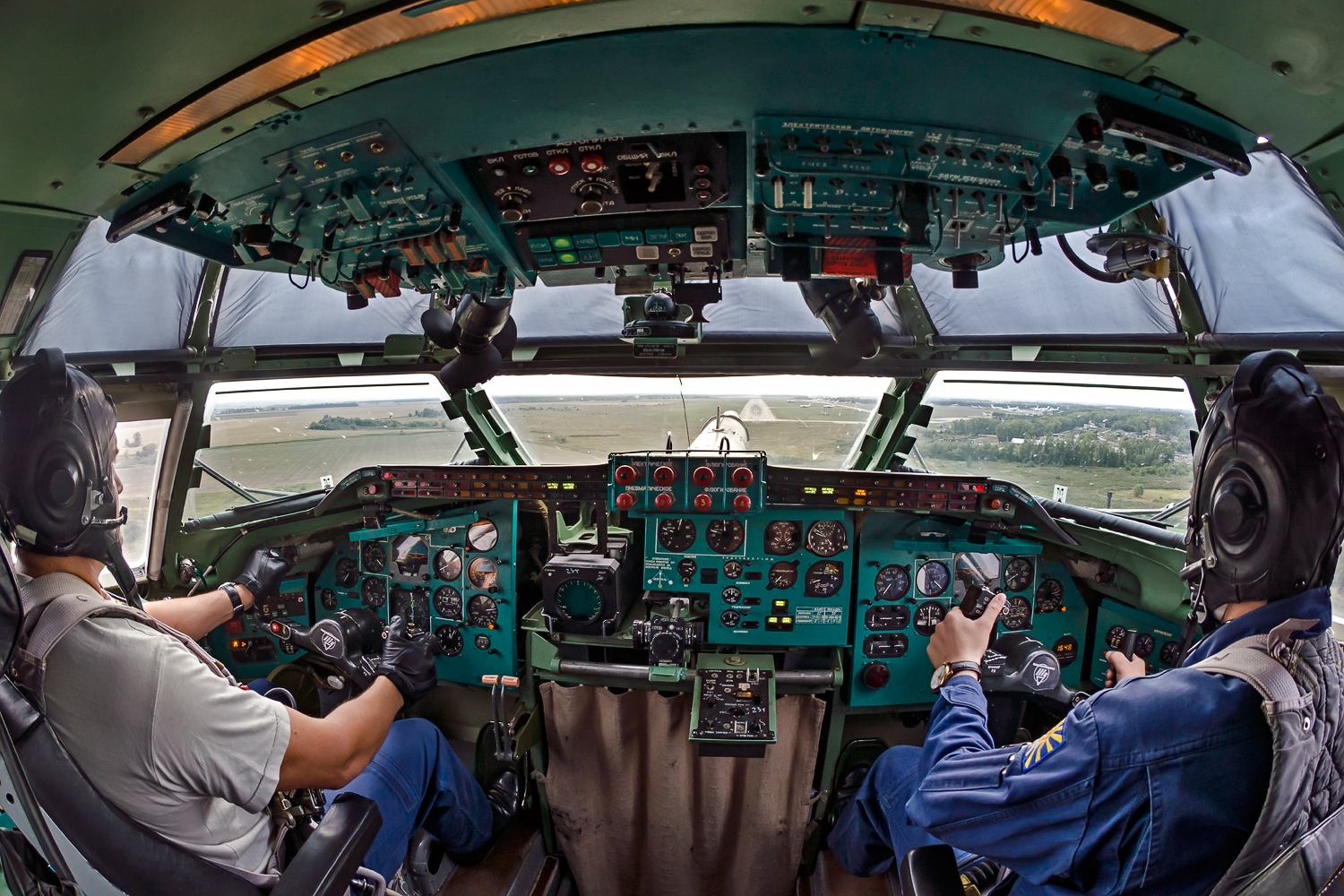 View from the cockpit of a Tupolev Tu-95MS on finals into Ryazan Dyagilevo Air Base